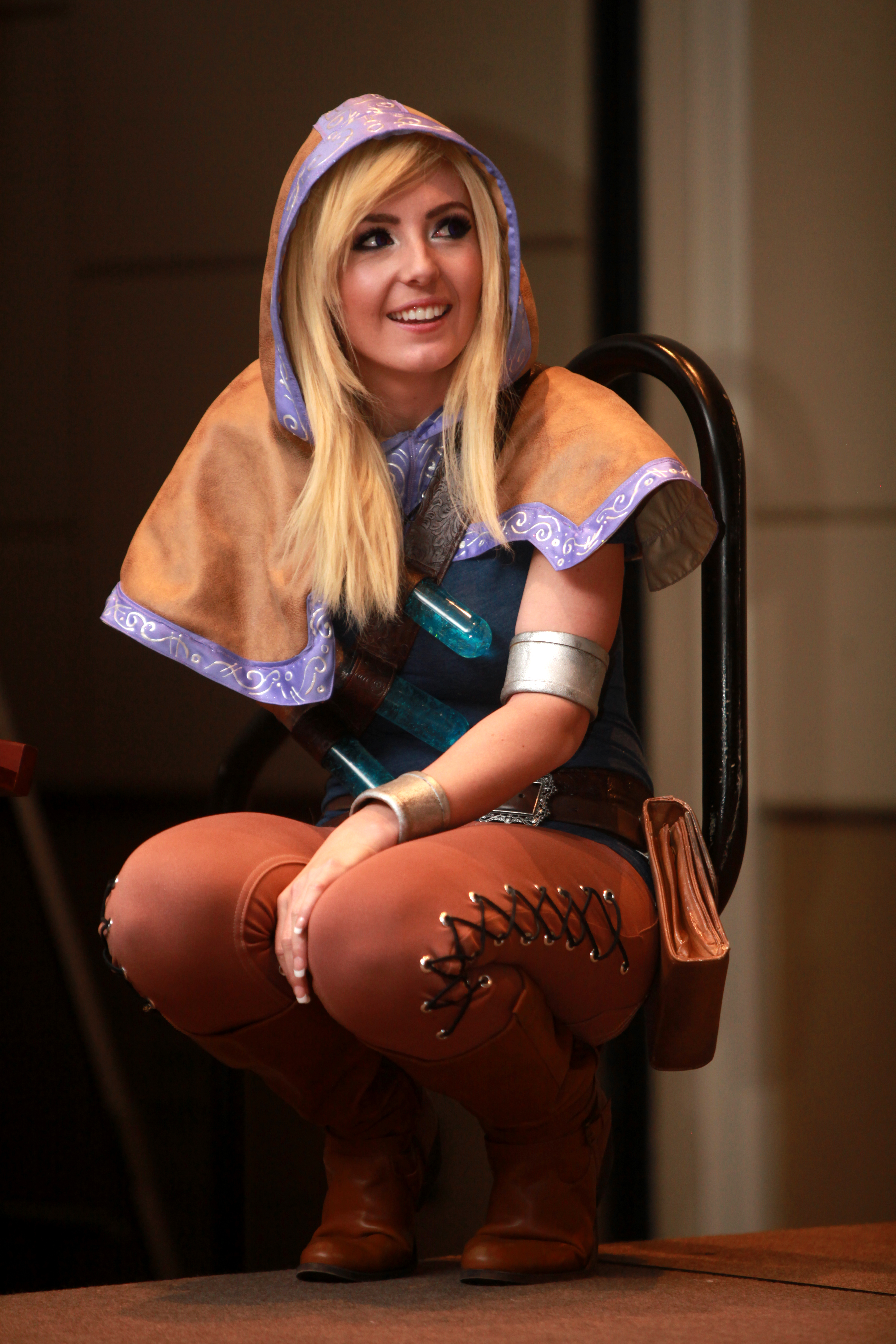 Jessica Nigri at the 2014 Amazing Arizona Comic Con at the Phoenix Convention Center in Phoenix, Arizona.